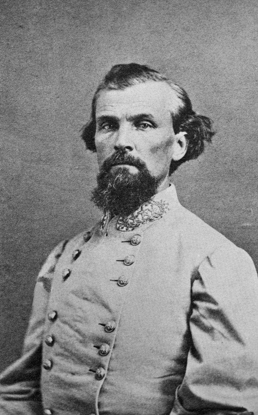 N.B. Forrest, in a high resolution photograph